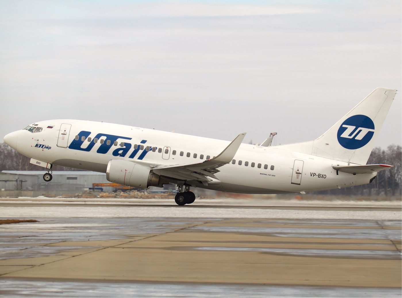 VP-BXO, UTair Boeing 737-500, Borispol Airport, Kiev